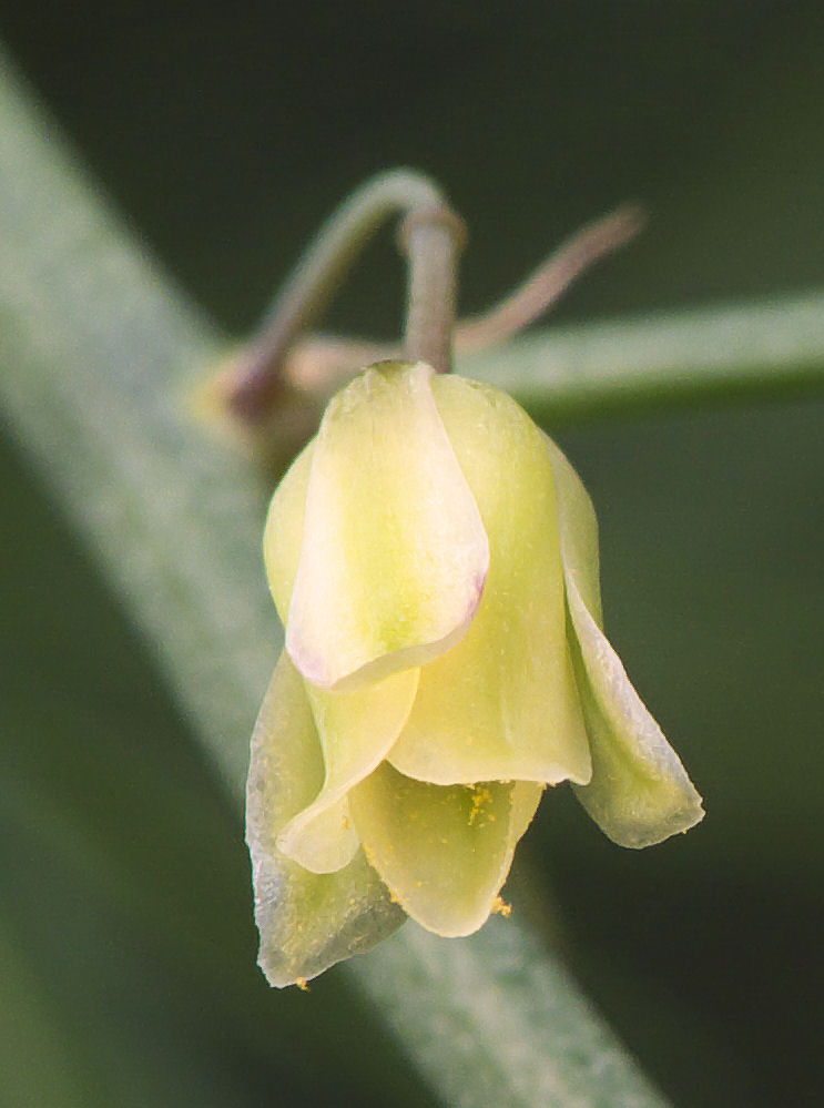 Asparagus officinalis subsp. oficinalis flower